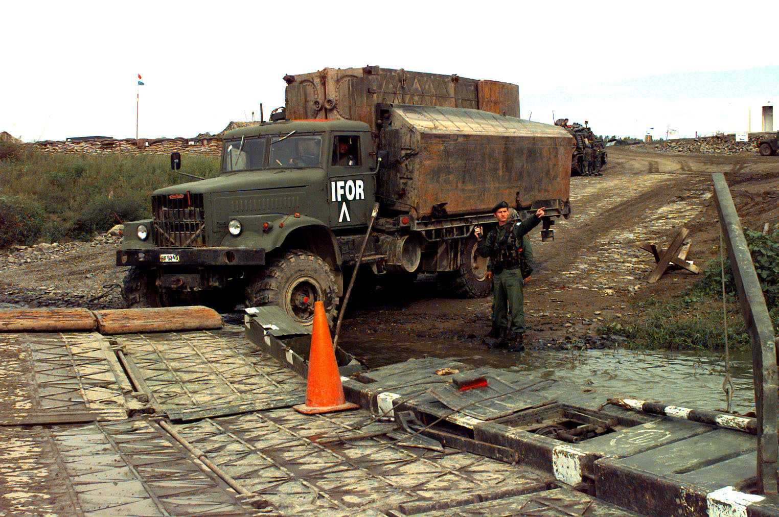 An IFOR Hungarian Army truck is used to nudge a Hungarian steel PMP Class 60 Pontoon Bridge, that crosses the Sava river at Slavonski Brod, Croatia, loosen from its Croatian shoreline moorings. The Hungarians are in Croatia in support of Operation Joint Endeavor, which is a peacekeeping effort by a multinational Implementation Force (IFOR), comprised of NATO and non-NATO military forces, deployed to Bosnia in support of the Dayton Peace Accords.